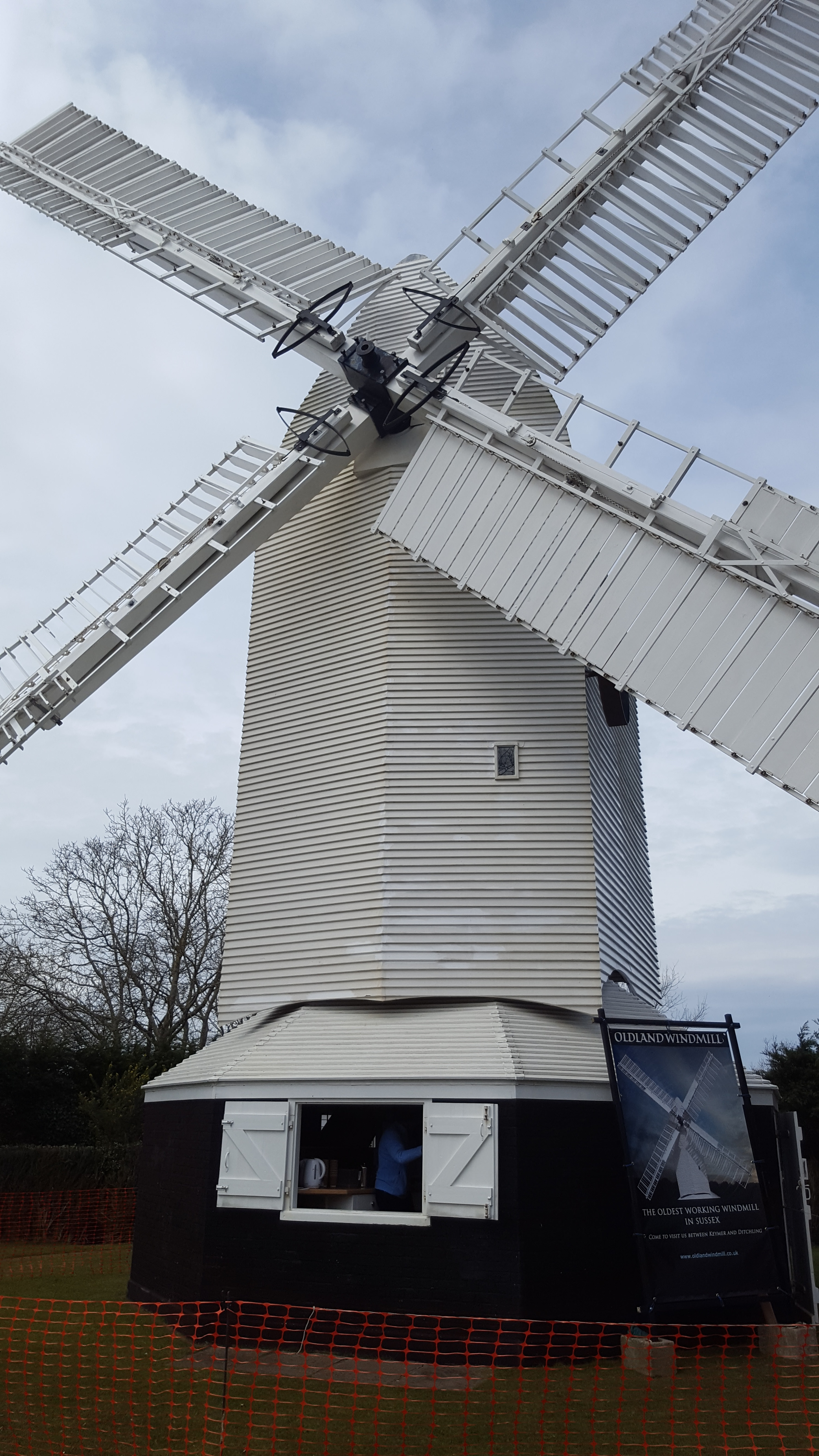 Post Mill in Hassocks.